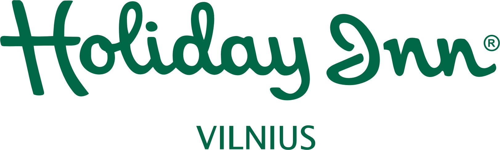 Holiday Inn Vilnius Hotel Logo